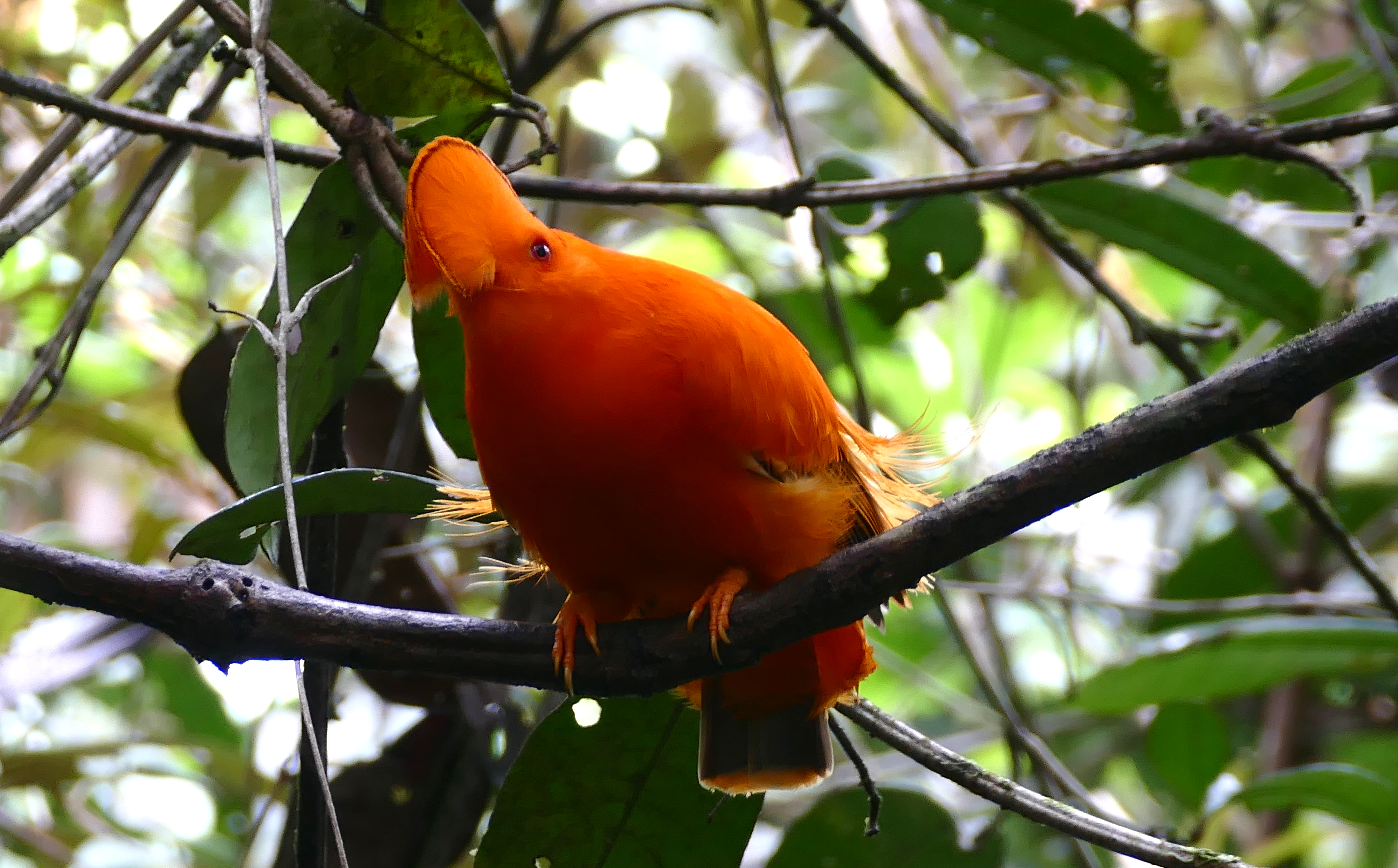 Cock-of-the-rock Trail, PK41, D6 Route de Kaw, Roura, French Guyana, FRANCE